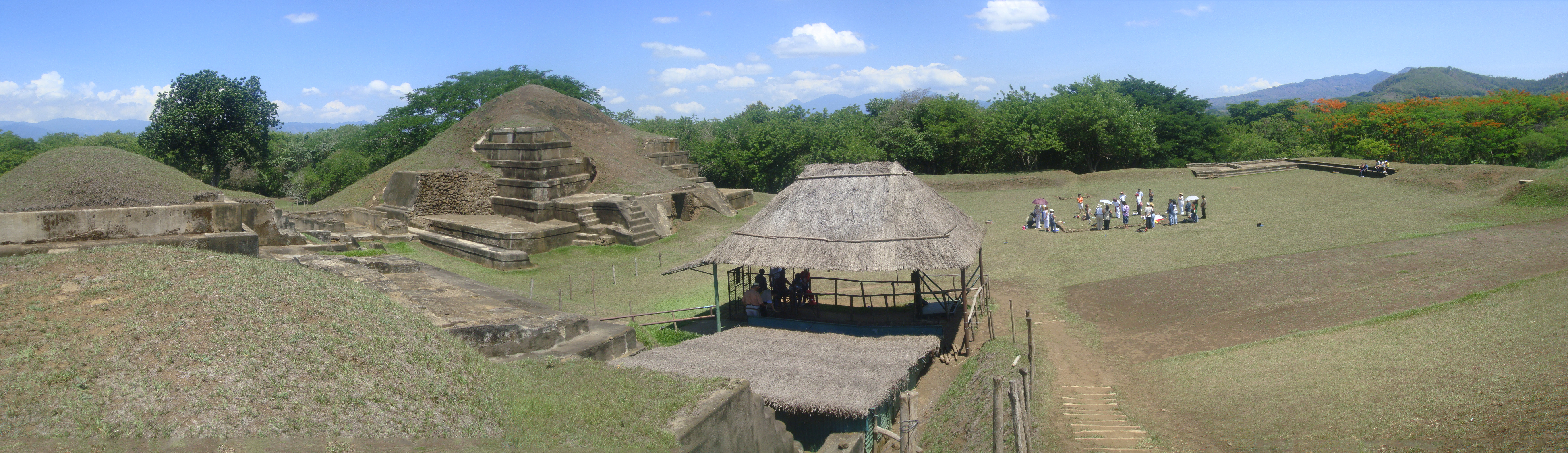 Panoramic view Mayan pyramids and central plaza at La Acropolis, San Andres, El Salvador (structures 1 and 2)